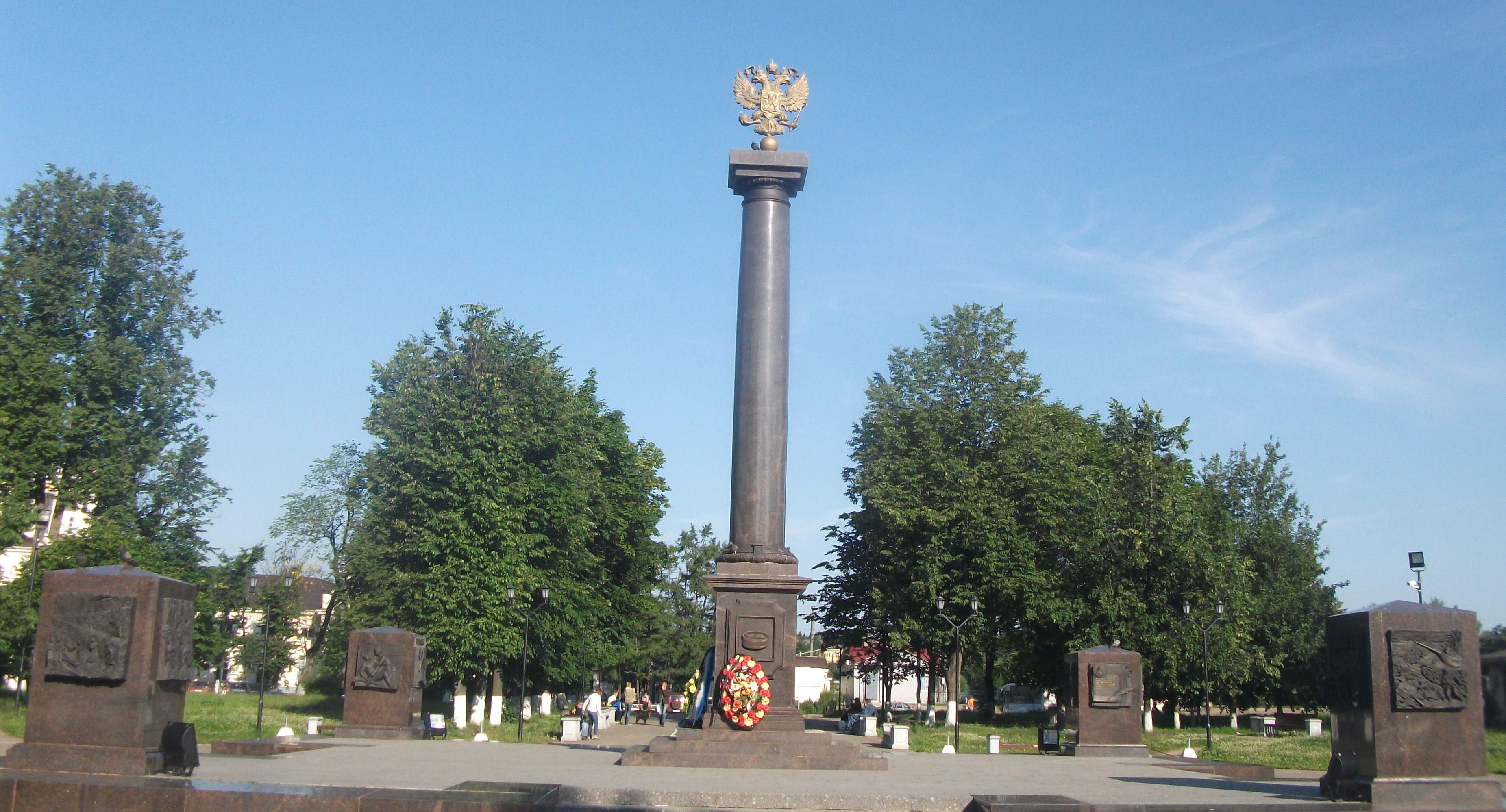 The city battle honour column, Luga Leningrad region